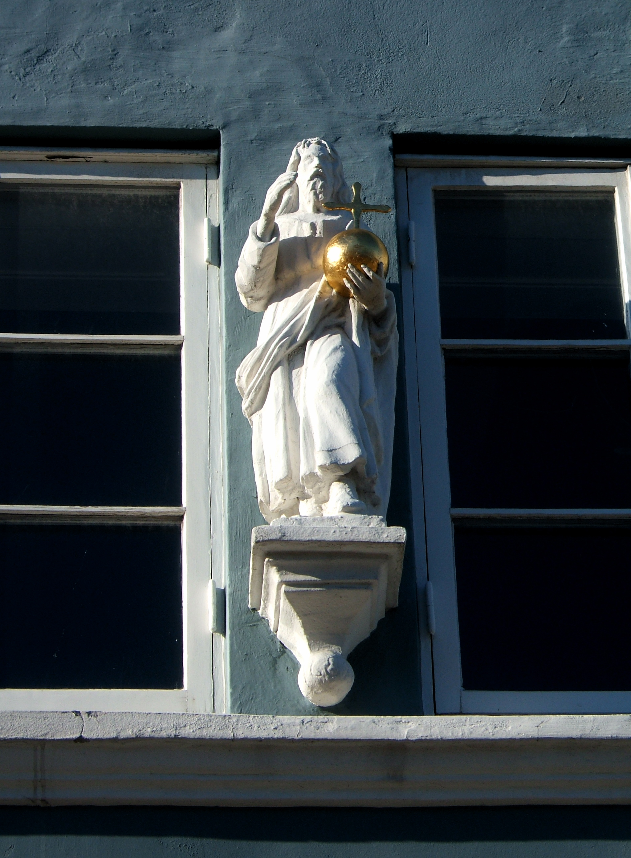 Detail from Nyhavn in Copenhagen, Denmark